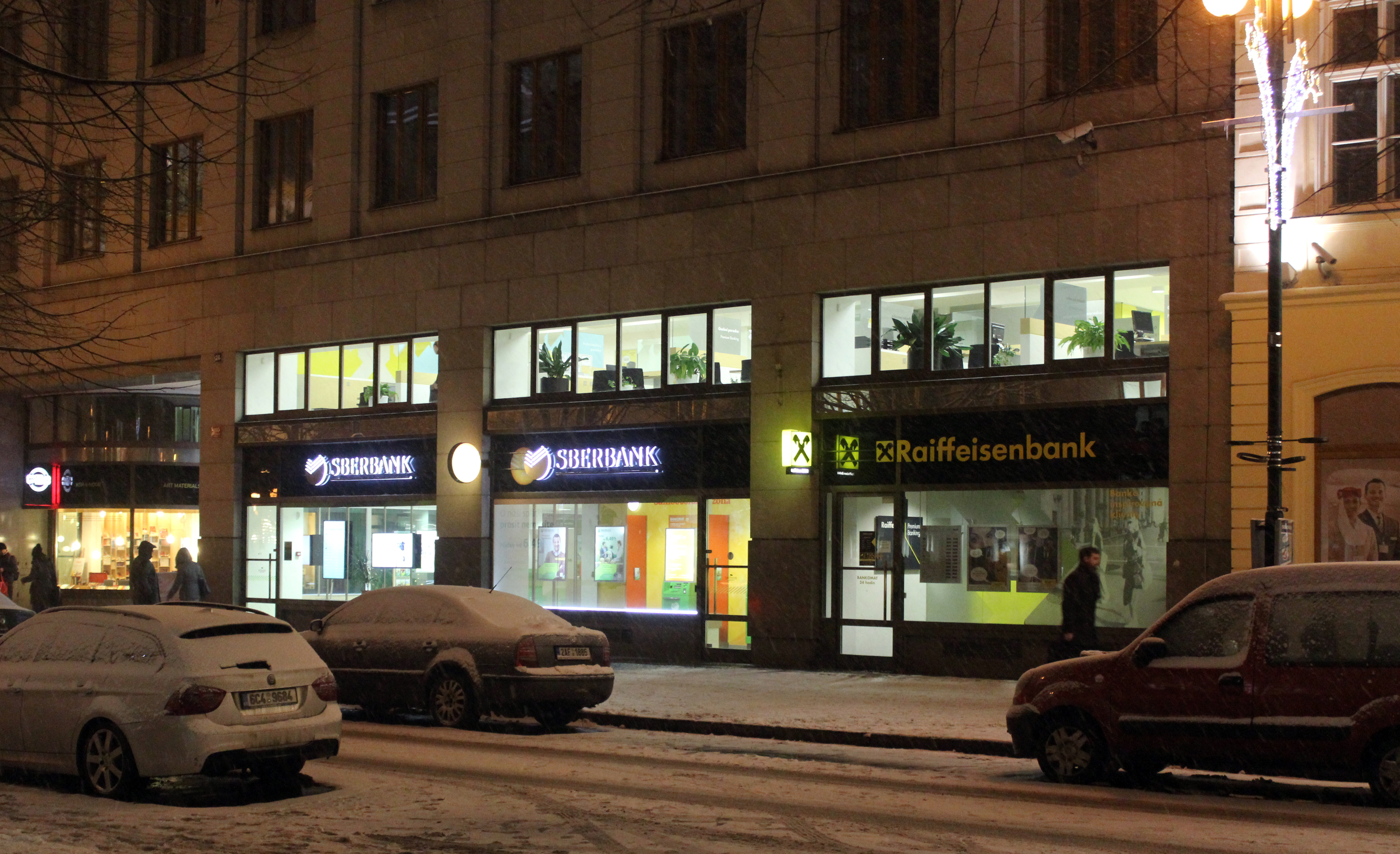 Sberbank and Raiffeisenbank in Prague